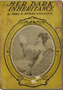 "Her Dark Inheritance" by Mrs. E. Burke Collins